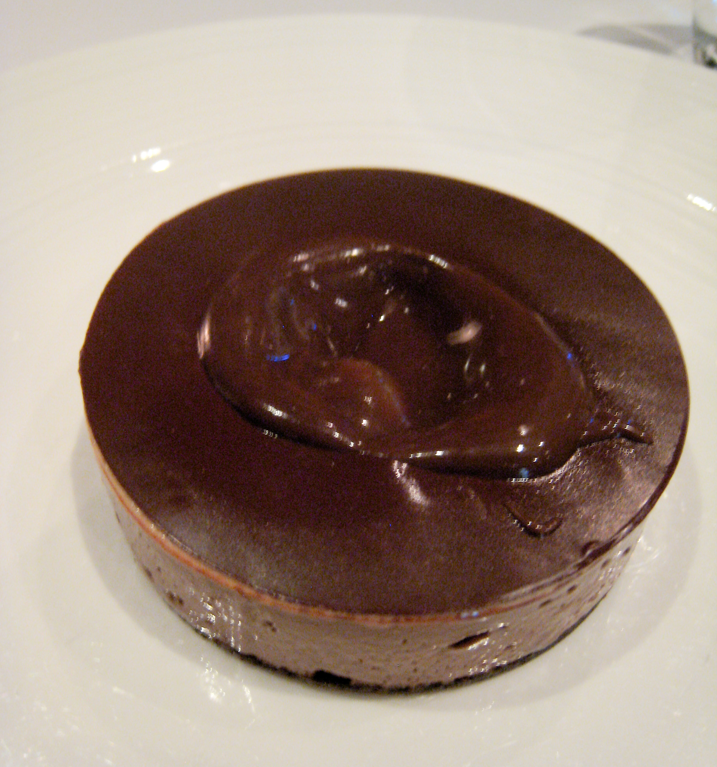 Eight texture cocolate cake, featuring Amedei 'Chuao' Chocolate